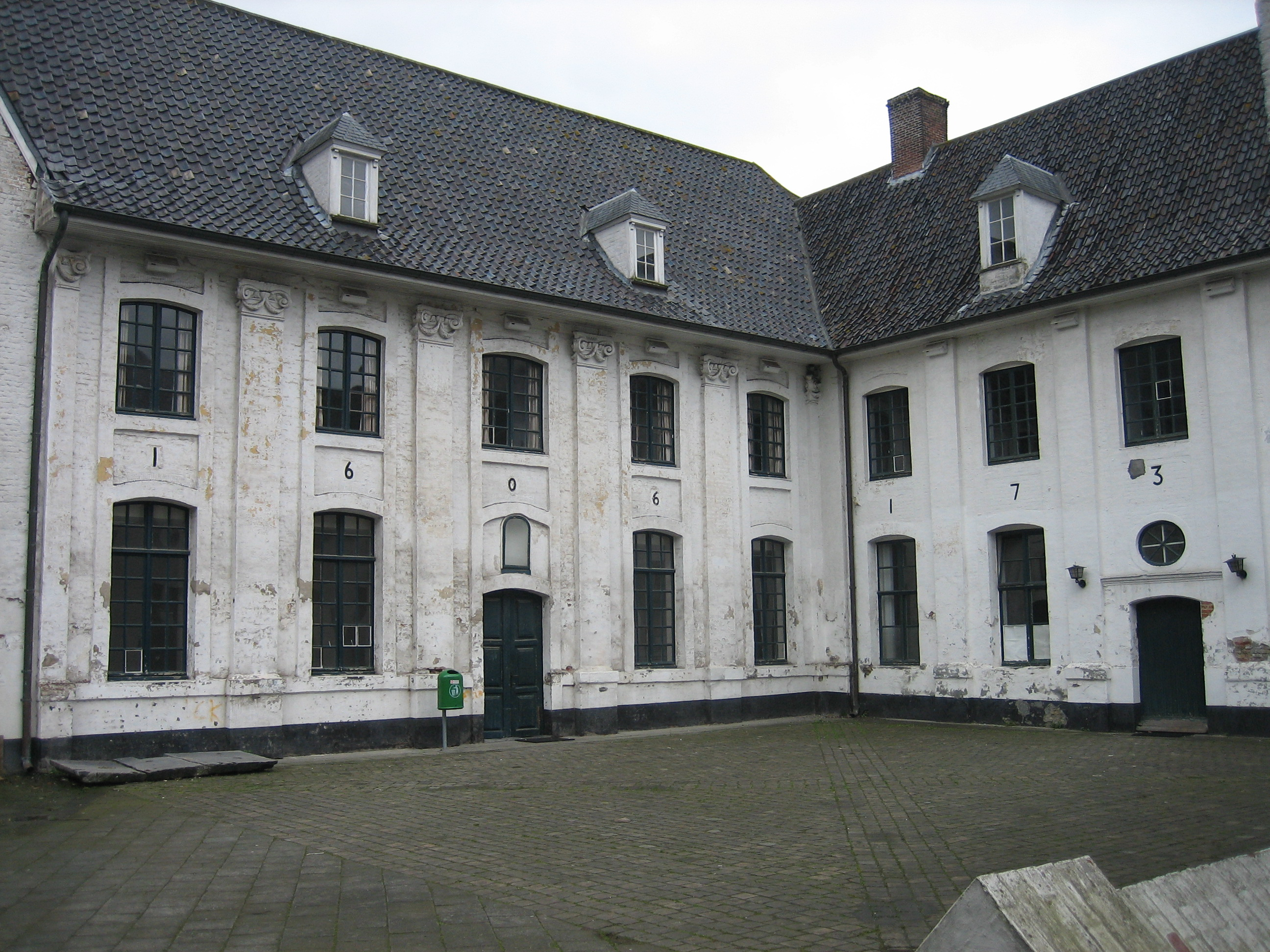 Ten Walle - oud hospitaal Torhout. Former German Kriegslazarett during Wold War I